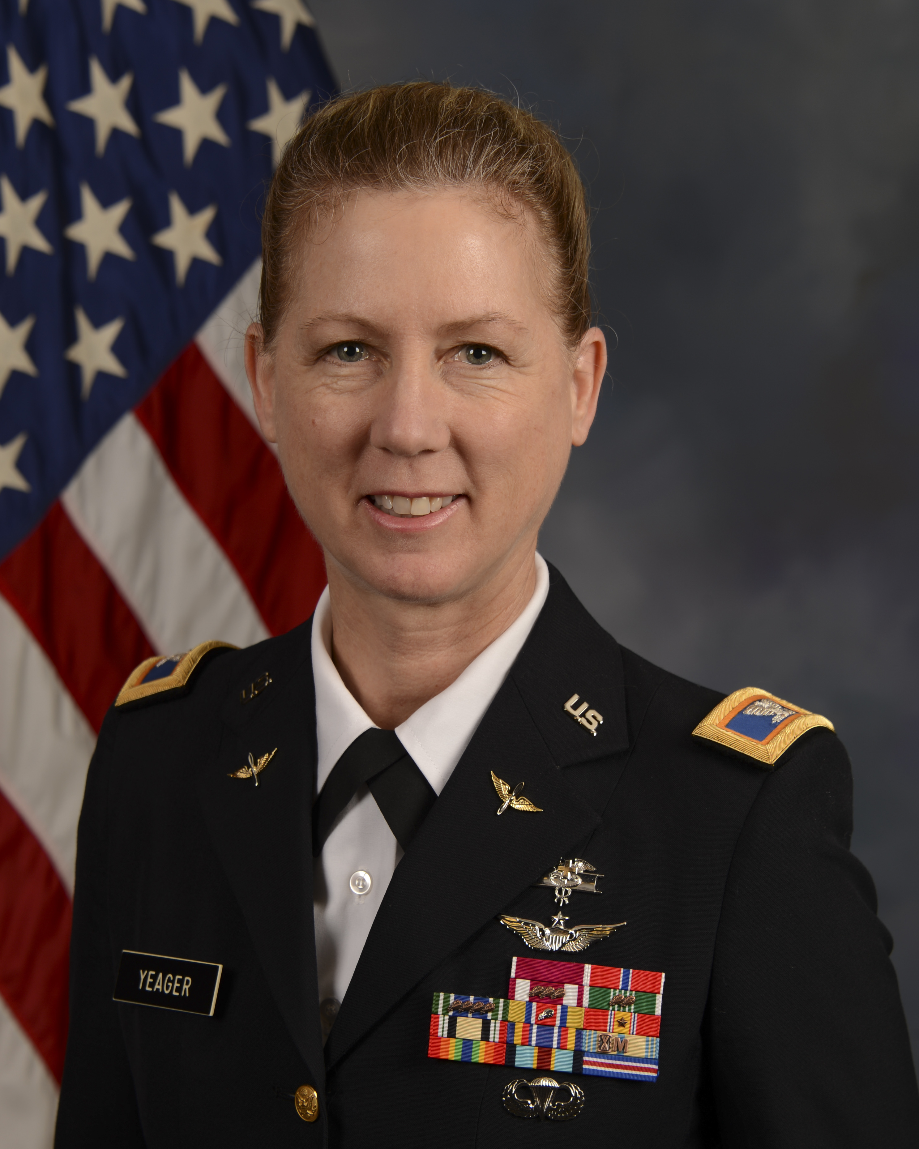 Cal Guard Col. Laura Yeager will be promoted to brigadier general May 31. Yeager, who flew Black Hawk helicopters in Iraq, will be one of two female generals serving in the California National Guard, and the fourth in Cal Guard history. Unit: 69th Public Affairs Detachment